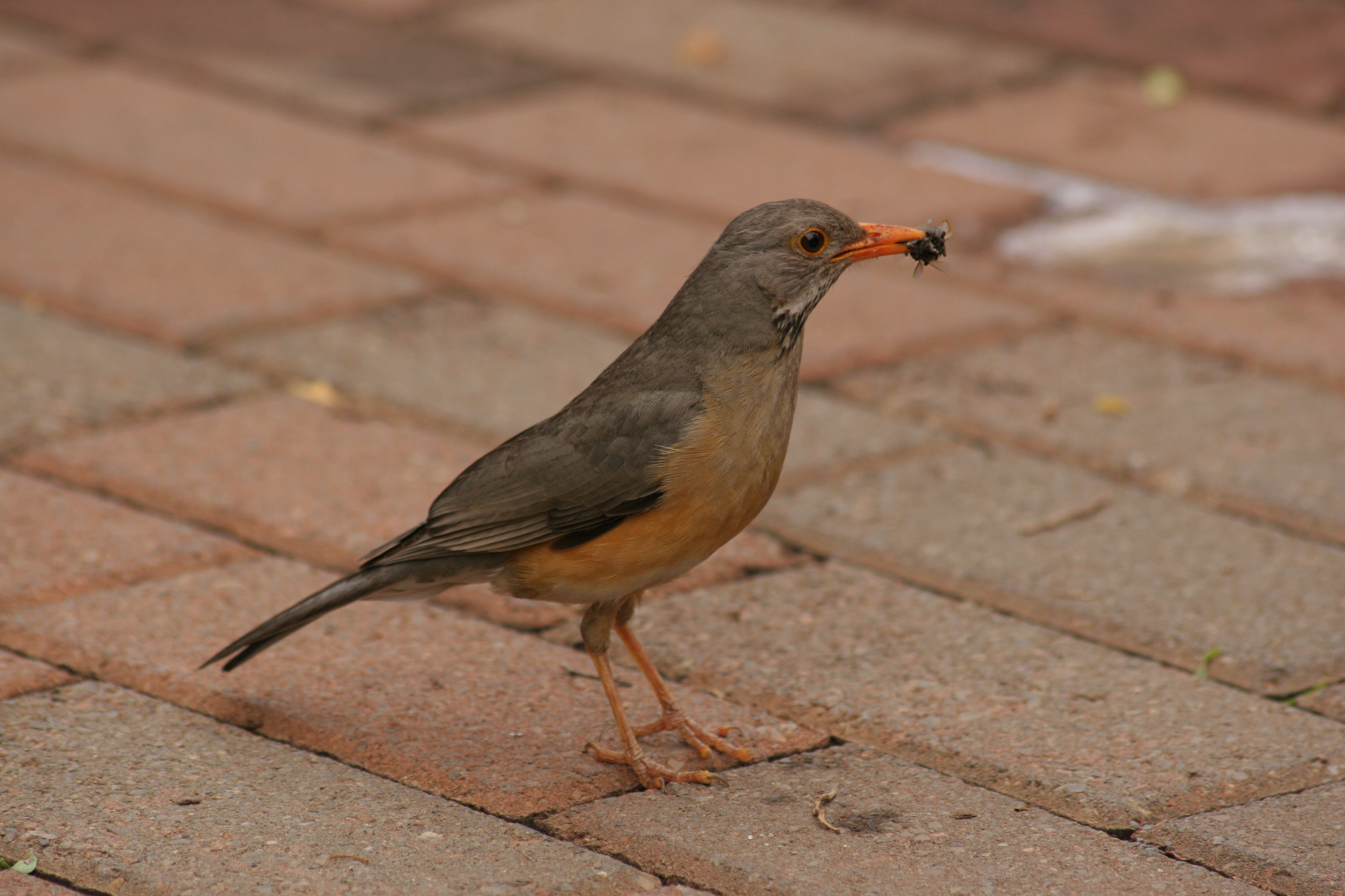 Kurrichane Thrush (Turdus libonyanus) He was collecting insects in his beak. Not eating just collecting. Taken at Walter Sisulu Botanical Gardens